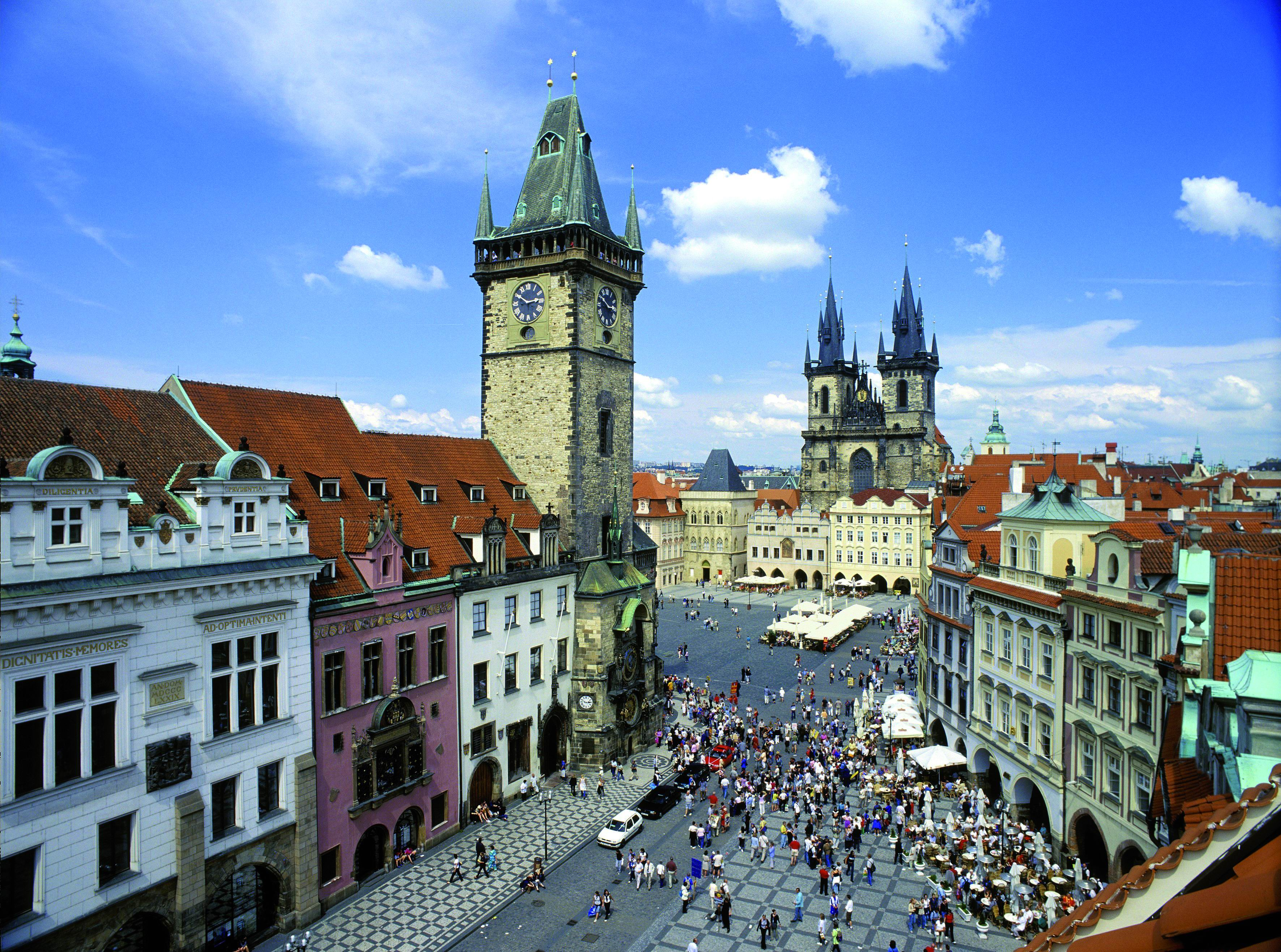 Old Town Square Panorama